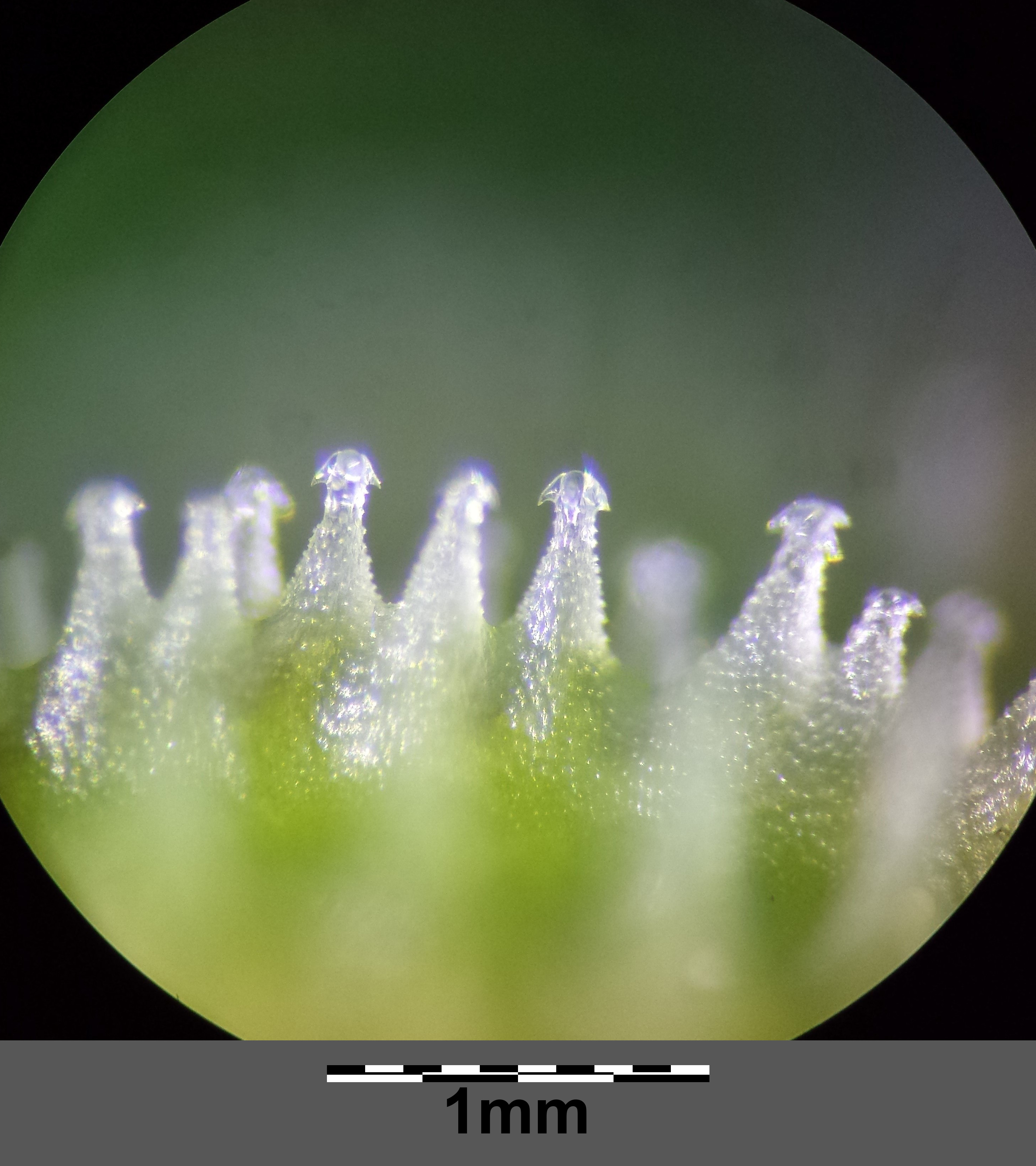 Glochidiate surface of fruitlet Taxonym: Cynoglossum officinale ss Fischer et al. EfÖLS 2008 ISBN 978-3-85474-187-9 Location: Burgstall to the North of Großmugl, district Korneuburg, Lower Austria - 280 m a.s.l. Habitat: slope